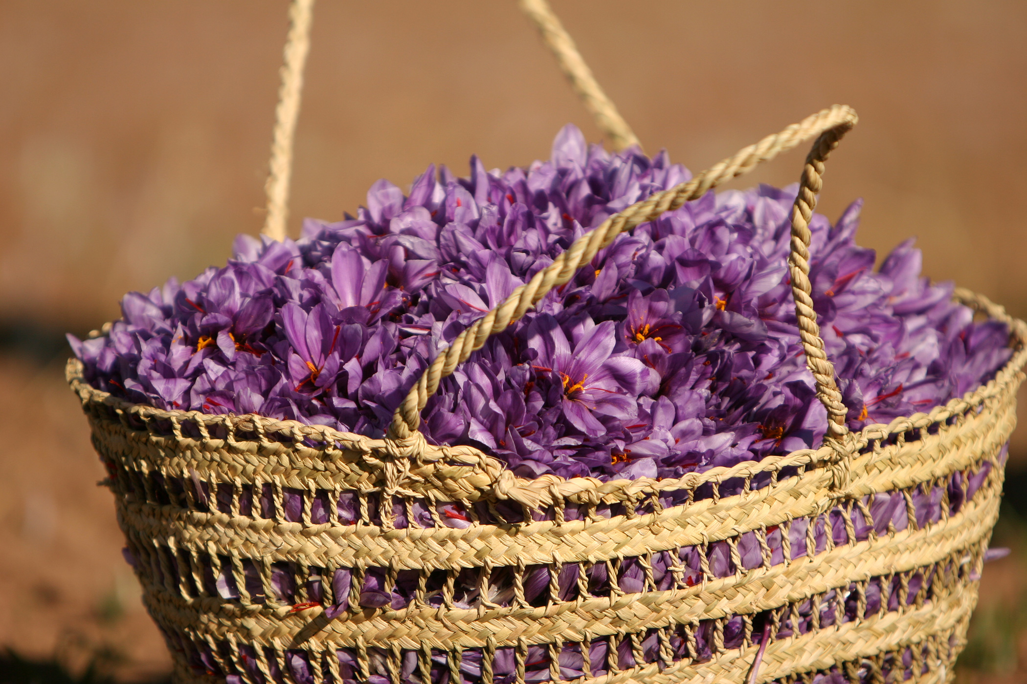 October 30, 2007 - Saffron farm, Torbat heydariyeh, Razavi Khorasan province, Iran - Photo by: Safa Daneshvar - A trip with Faraz Saffron Co. Ltd.